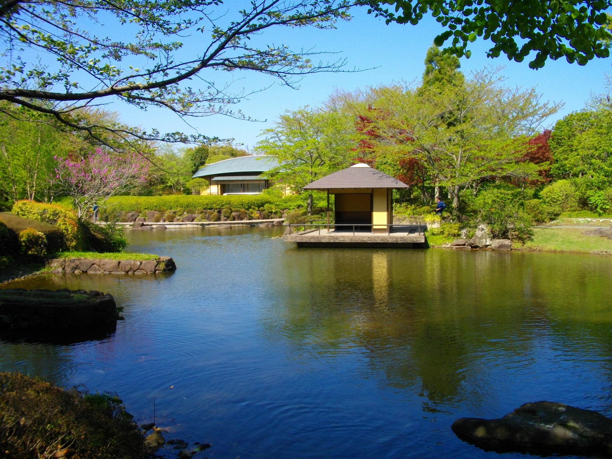 Kashiwanoha Park Makigahara-en(Japanese garden)